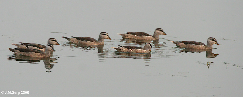 Cotton Pgymy Goose (Nettapus coromandelianus) near Hodal in Faridabad District of Haryana, India.